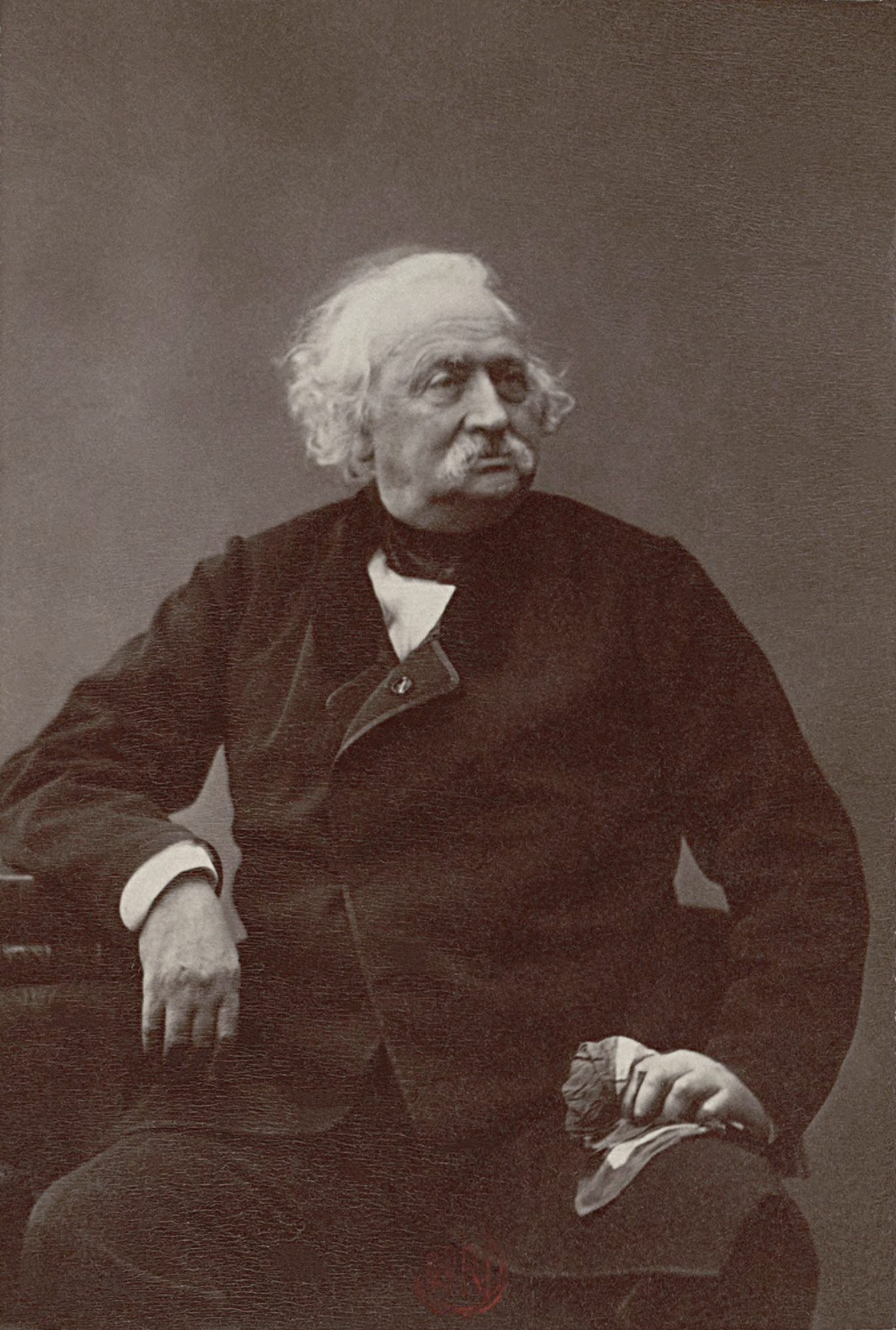 Auguste Perdonnet, (1801 - 1867) french engineer, pioneer of the railways in France.